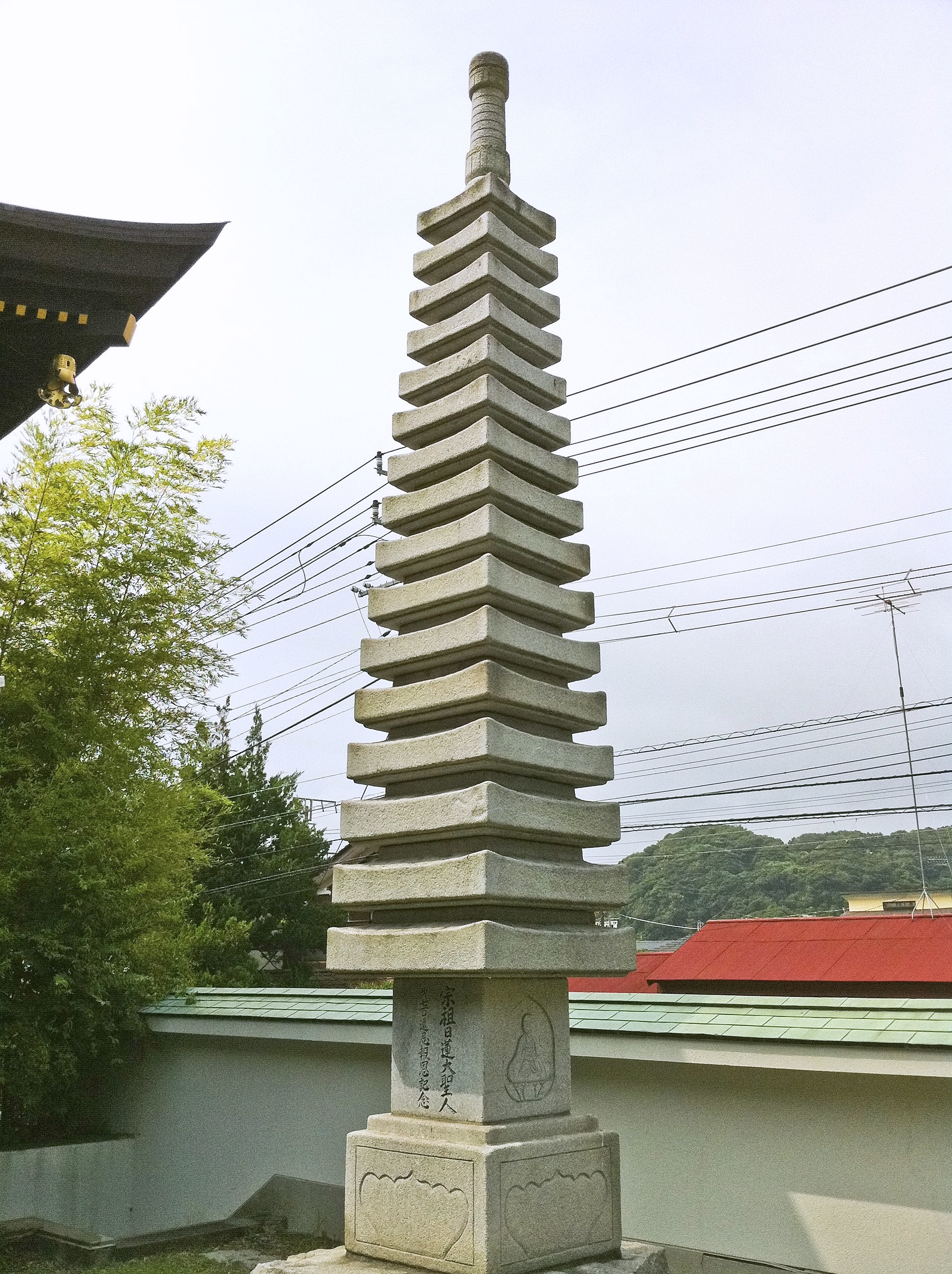 A stone pagoda, “buttō”, highly unusual for having an even number of tiers (16)